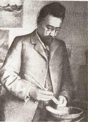 Petro Levchenko in working process